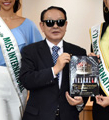 The delegates of the Miss International met Fumiaki Matsumoto, Senior Vice-Minister of Cabinet Office, in Japan on November 22, 2017.